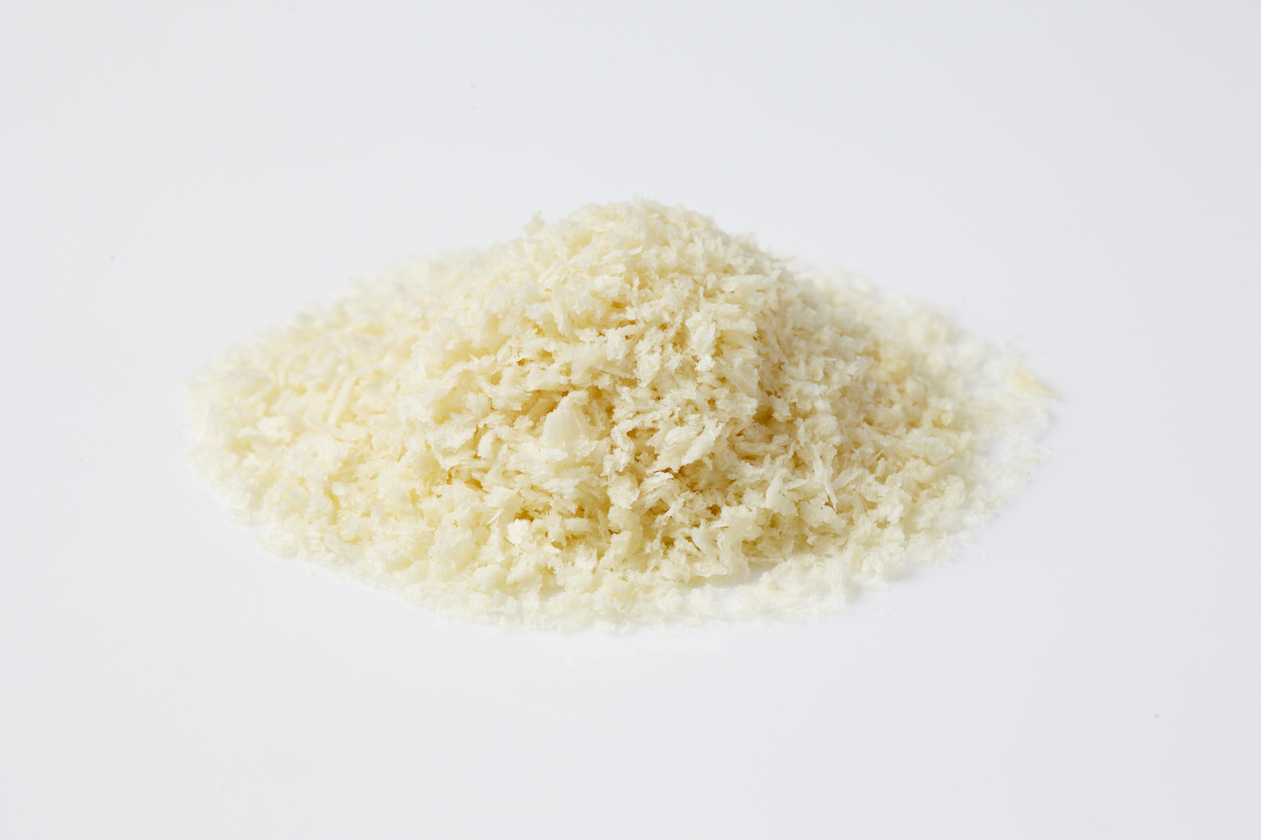 Korean bread crumbs